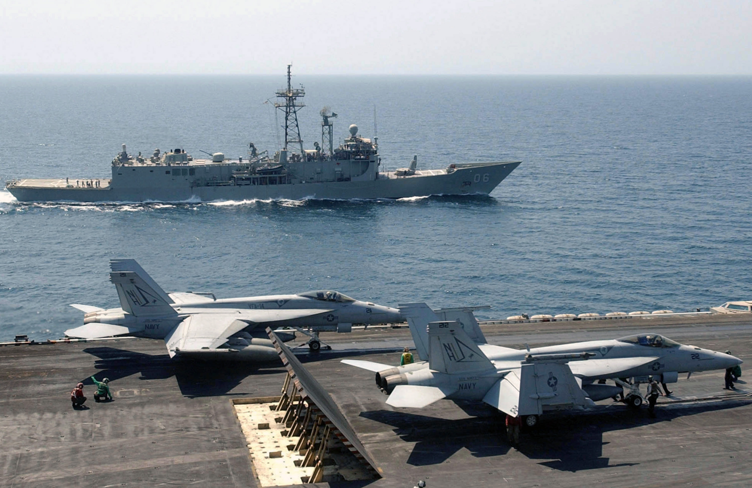 With the Royal Australian Navy Adelaide (Oliver Hazard Perry) class frigate HMAS) Newcastle (FFG 06) underway in the background, two US Navy F/A-18E Super Hornet aircraft, assigned to the "Tophatters" of Strike Fighter Squadron Fourteen (VFA-14), prepare to launch from the flight deck of the USN aircraft carrier, USS Nimitz (CVN-68). The Nimitz Carrier Strike Group was on a regularly scheduled deployment participating in Maritime Security Operations (MSO) in the Persian Gulf area.